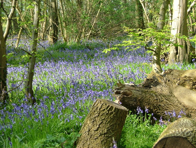 Bluebells in Reydon Wood Reydon Wood is managed by Suffolk Wildlife Trust. It is on a heavy clay which was difficult to plough, the surrounding area is more sandy and easily cultivated.